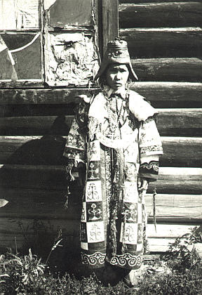 Hezhe (Nanai) gril in wedding costume. Russia